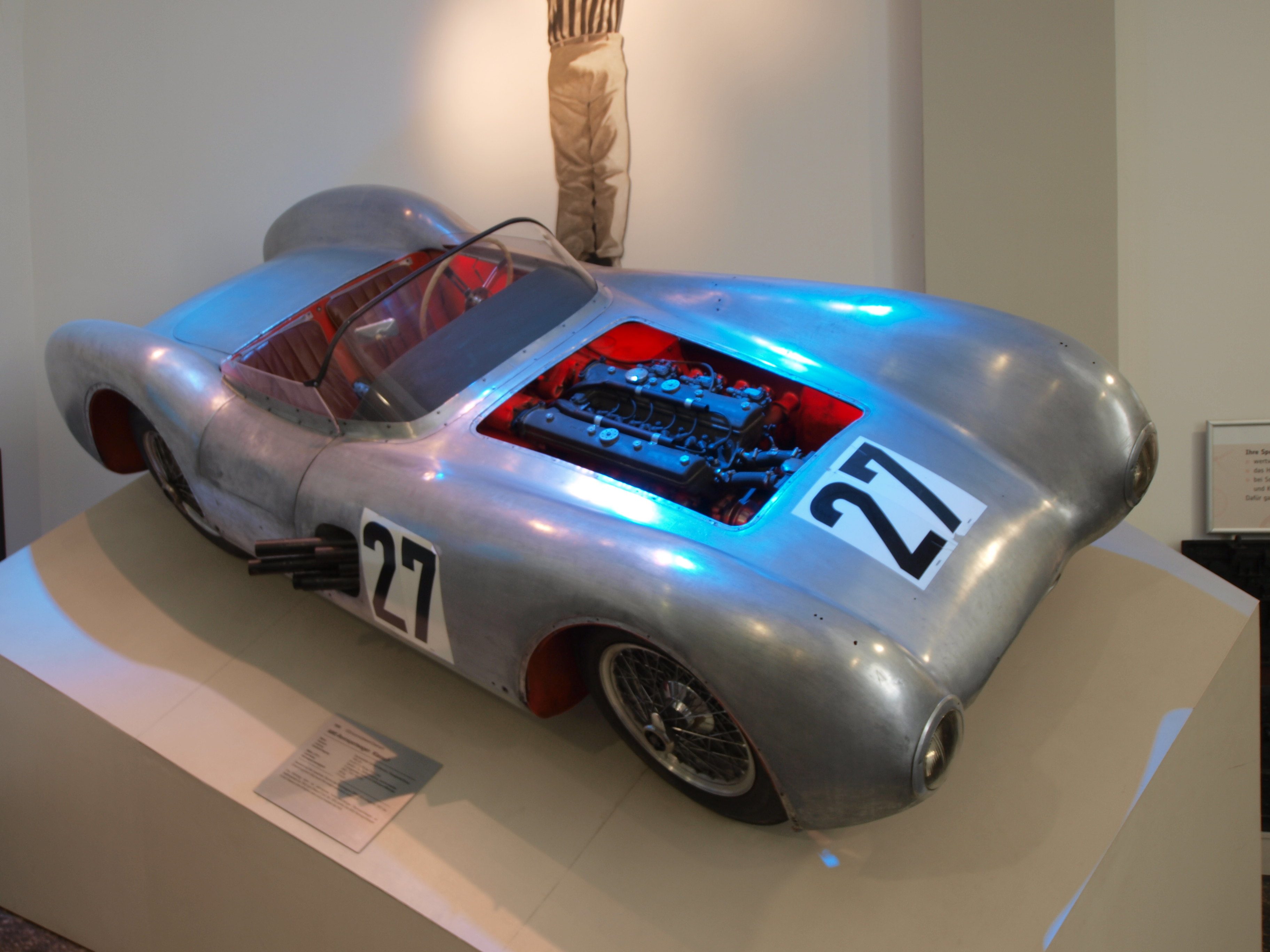 Photo taken without a tripod (was not permitted!) 1954 VEB AWE Rennsportwagen Klasse F